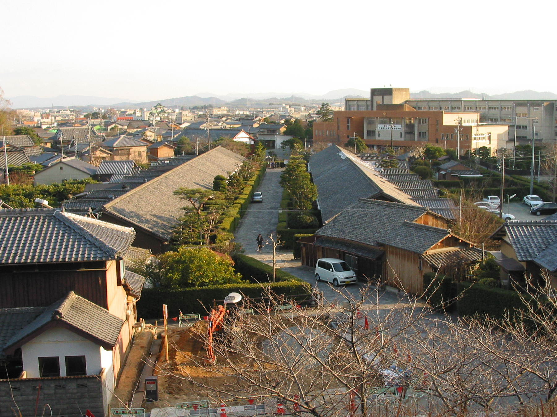 Gojoban Yashiki (Houses for the samurai who guarded Matsusaka Castle) They were built in 1863. 松坂城側にある御城番屋敷 三重県松阪市殿町で撮影